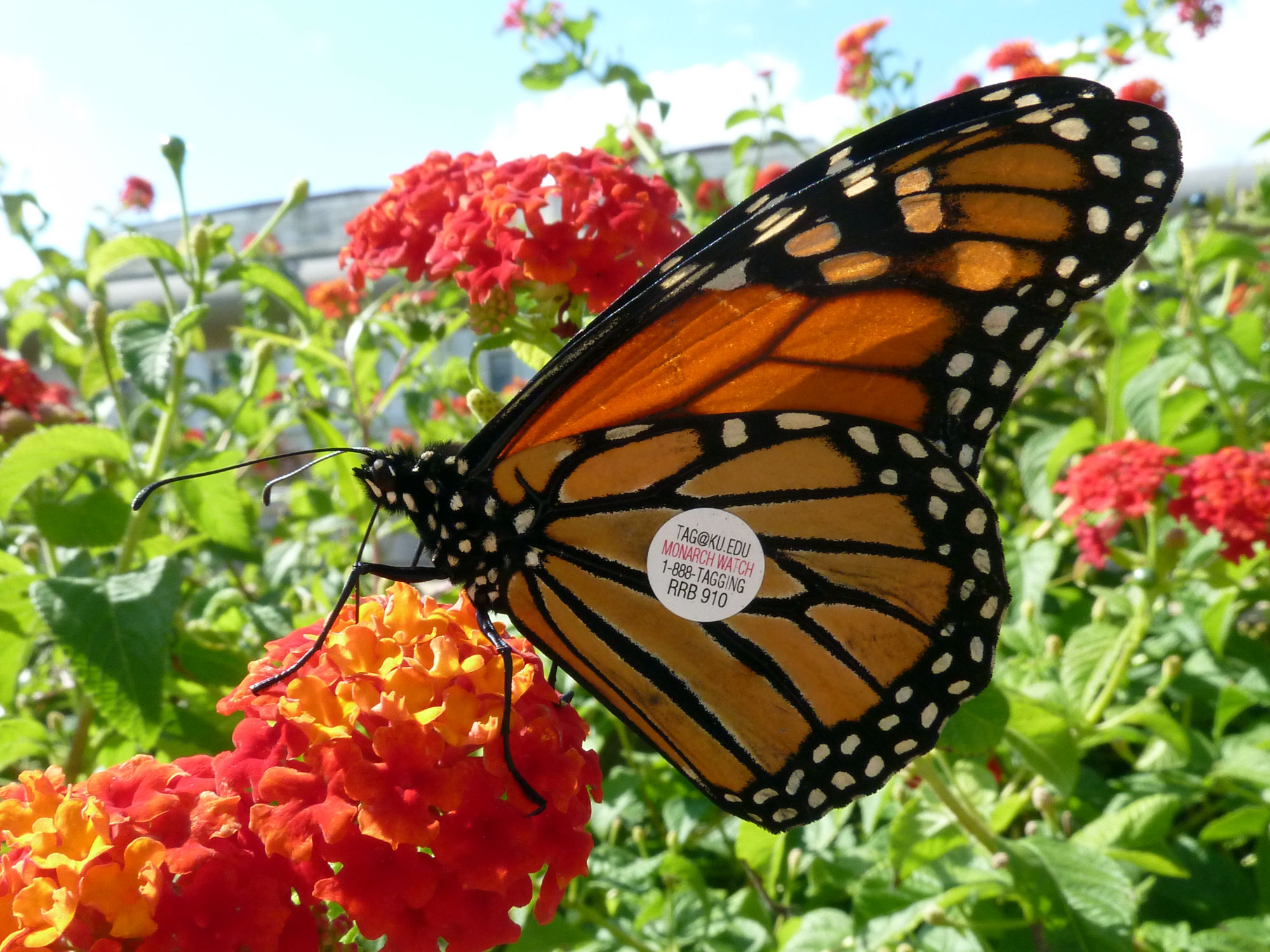 Monarch butterfly, Danaus plexippus, tagged for Monarch Watch at 12th Street Tunnel entrance, Washington, DC, USA. 10 October 2012. If you see a tagged monarch, please take a picture of it or note down the code on the last line of the tag and email it to or call 1-888-TAGGING.